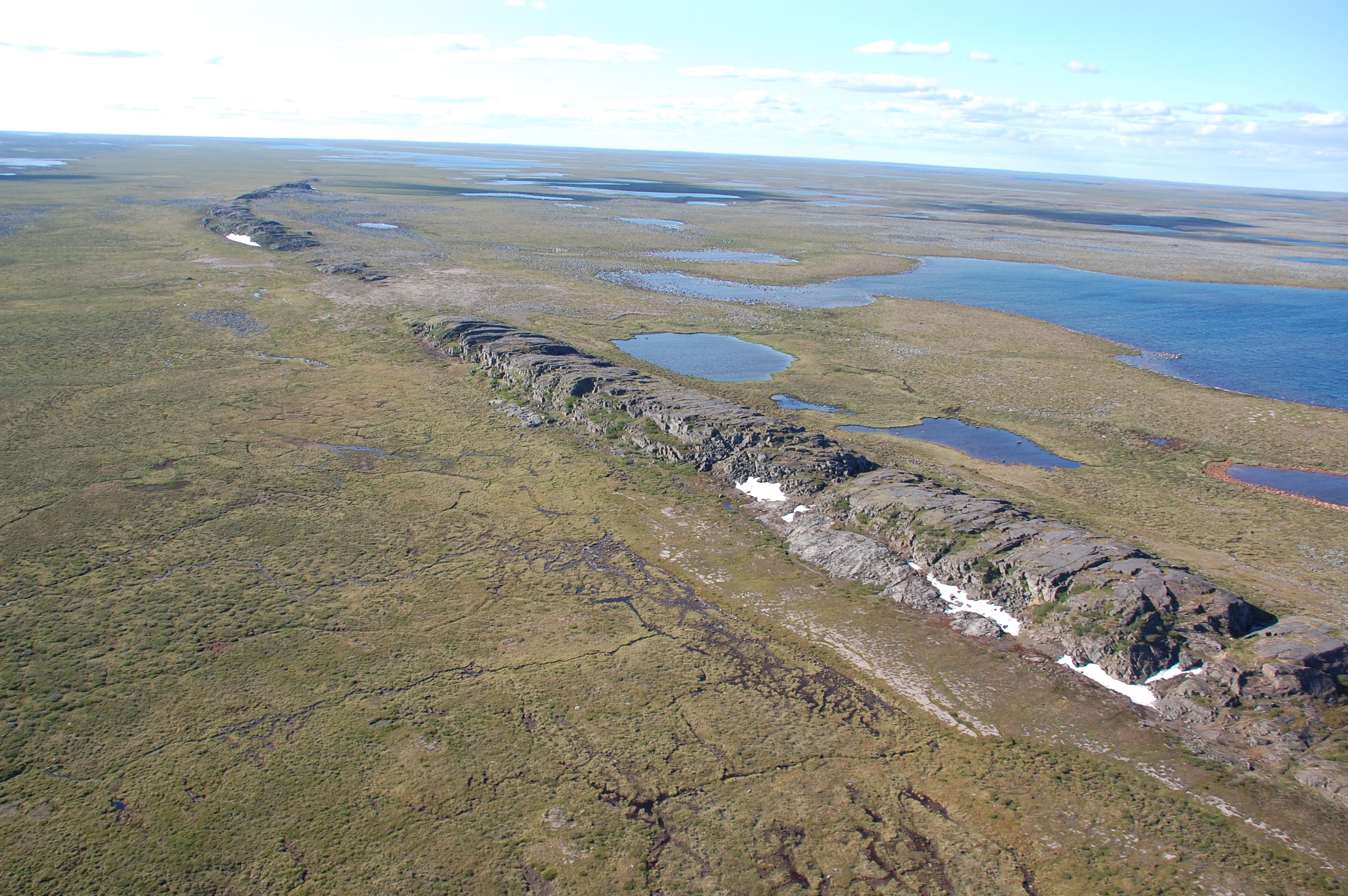 dyke seen from the air in Kivalliq, Nunavut